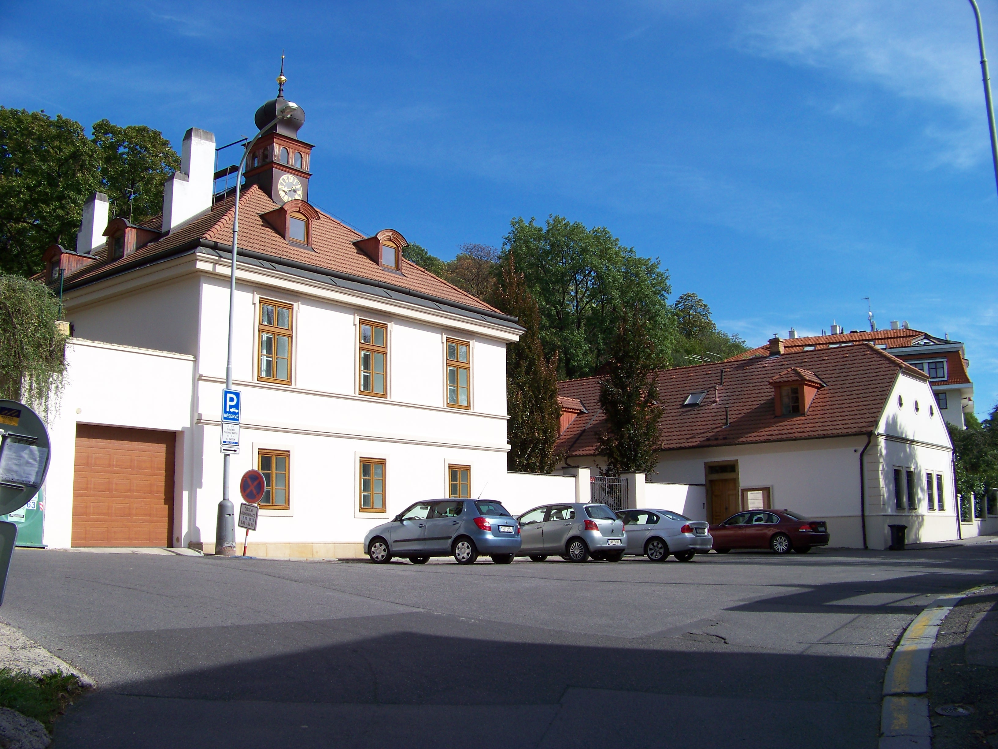 Prague-Vinohrady, the Czech Republic. Perucká 61/13 Vondračka estate.